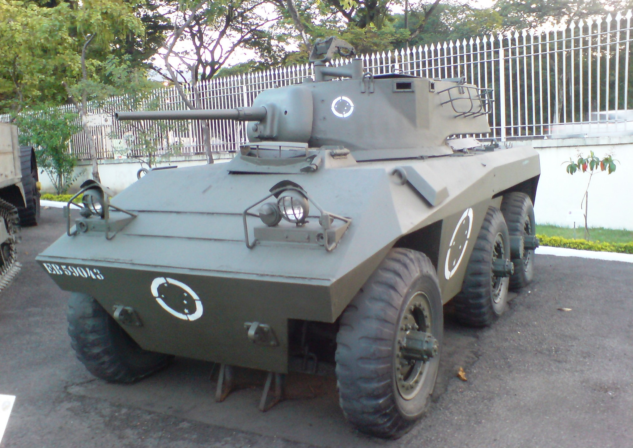 One of the very first "Cascavel" to roll out the assembly line is now on display at Museu Militar Conde de Linhares in Rio de Janeiro, Brazil.